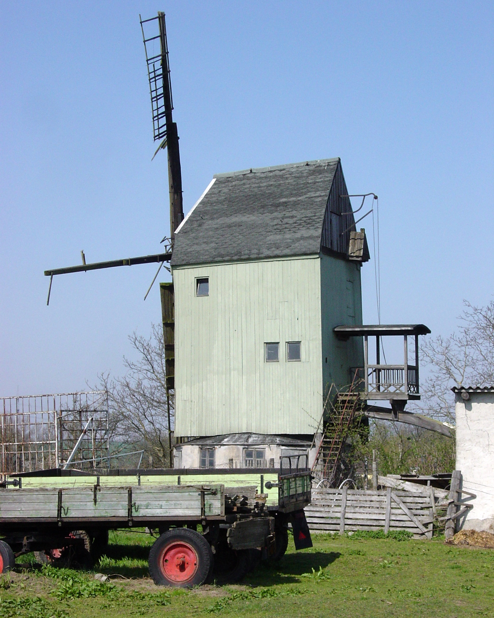 Windmill (post mill) in Groß Rodensleben, Germany